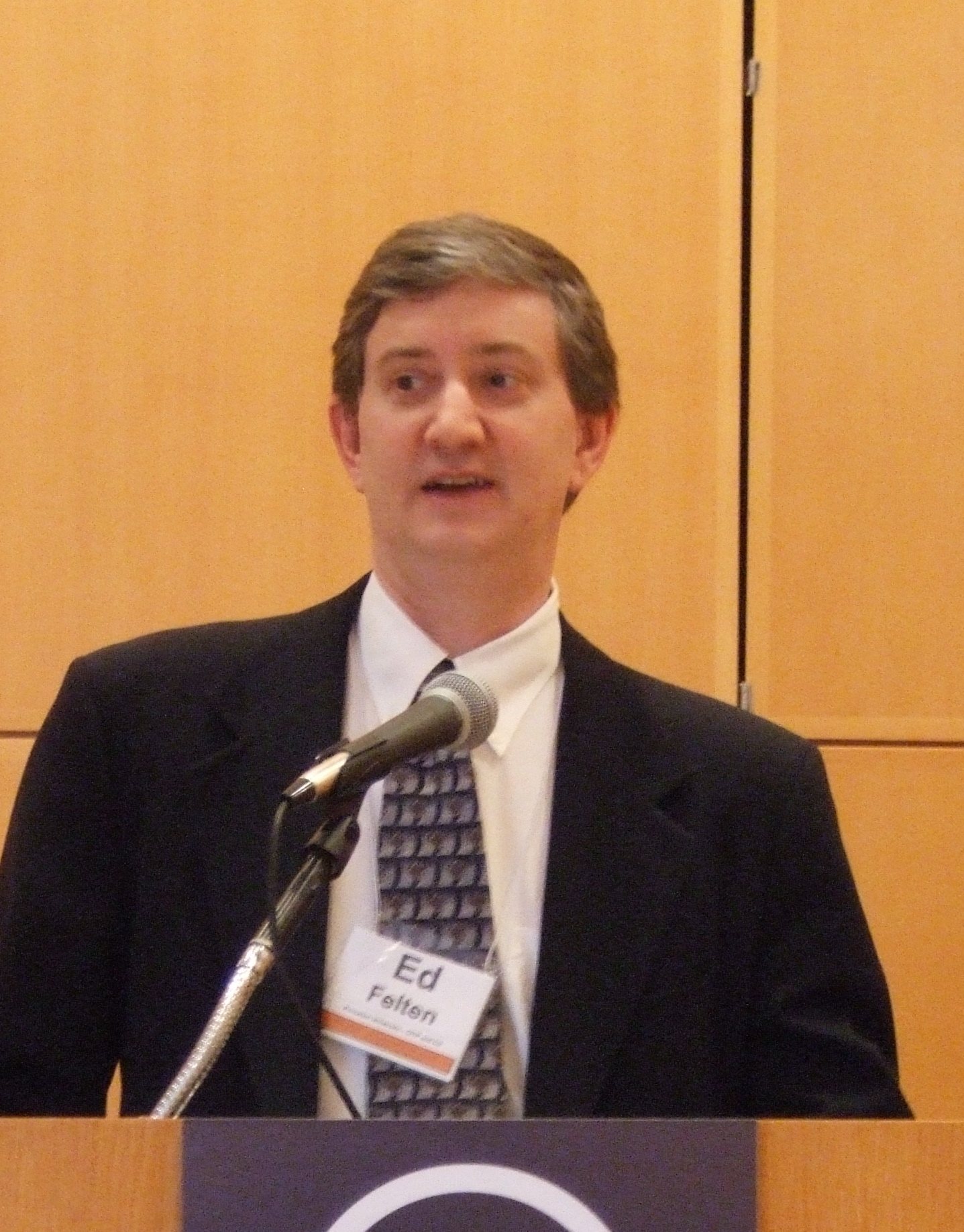 A photo of Edward Felten presenting at a Princeton University Center for Information Technology Policy (CITP) event, "Computing in the Cloud," in 2008.